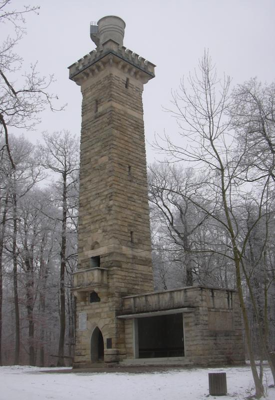 Kernenturm, a view tower near Stuttgart